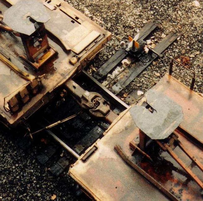 Railroad couplers in use at Beacon Yard, Boston.